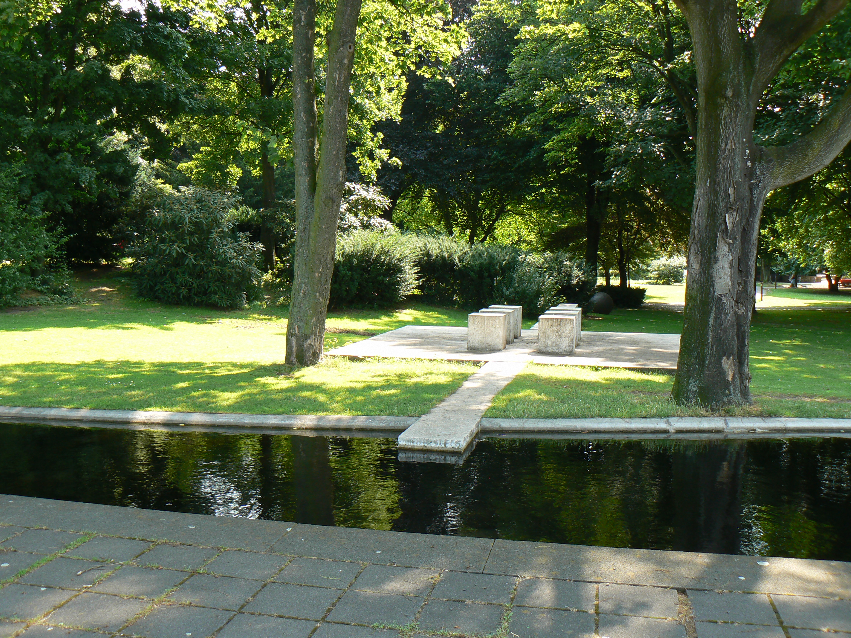 land art sculpture Dialog (1989) in Duisburg/Germany